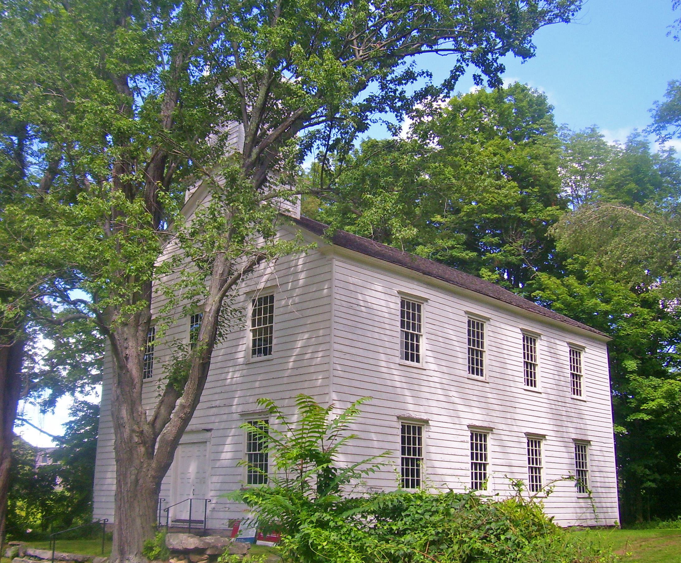 Old Southeast Church, in Southeast, NY, USA